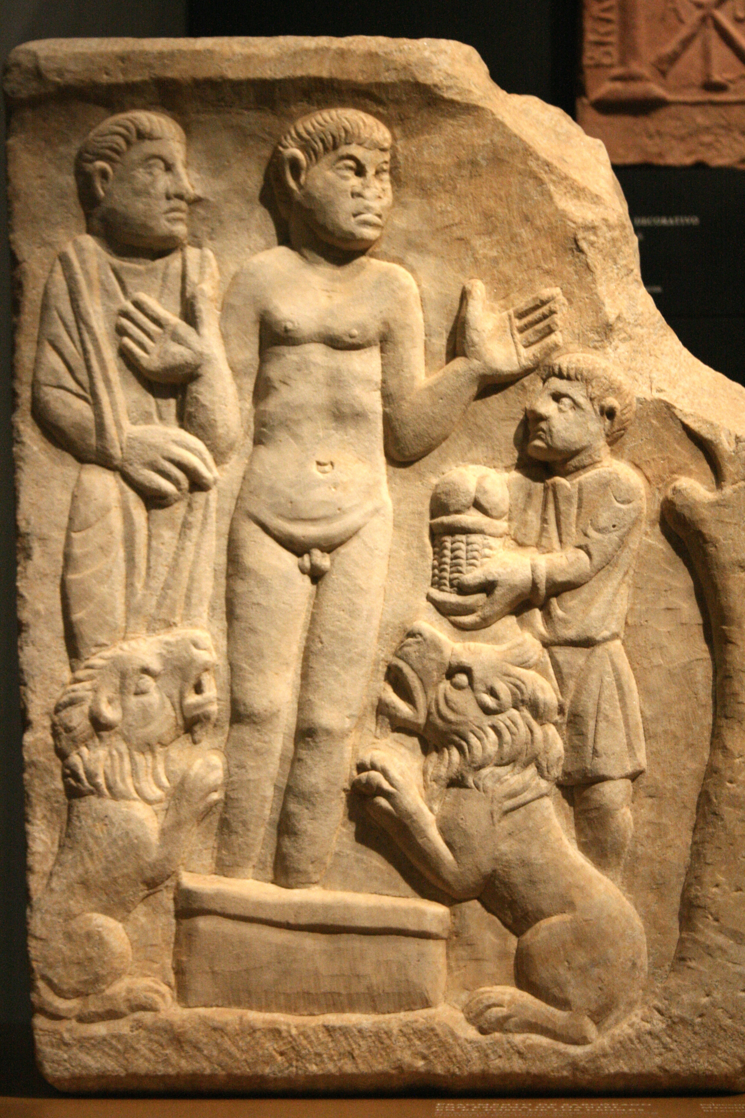 Fragment of a poleochristian sarcophagus representing Daniel in the lions' den. Museo Arqueológico y Etnológico de Córdoba, Spain